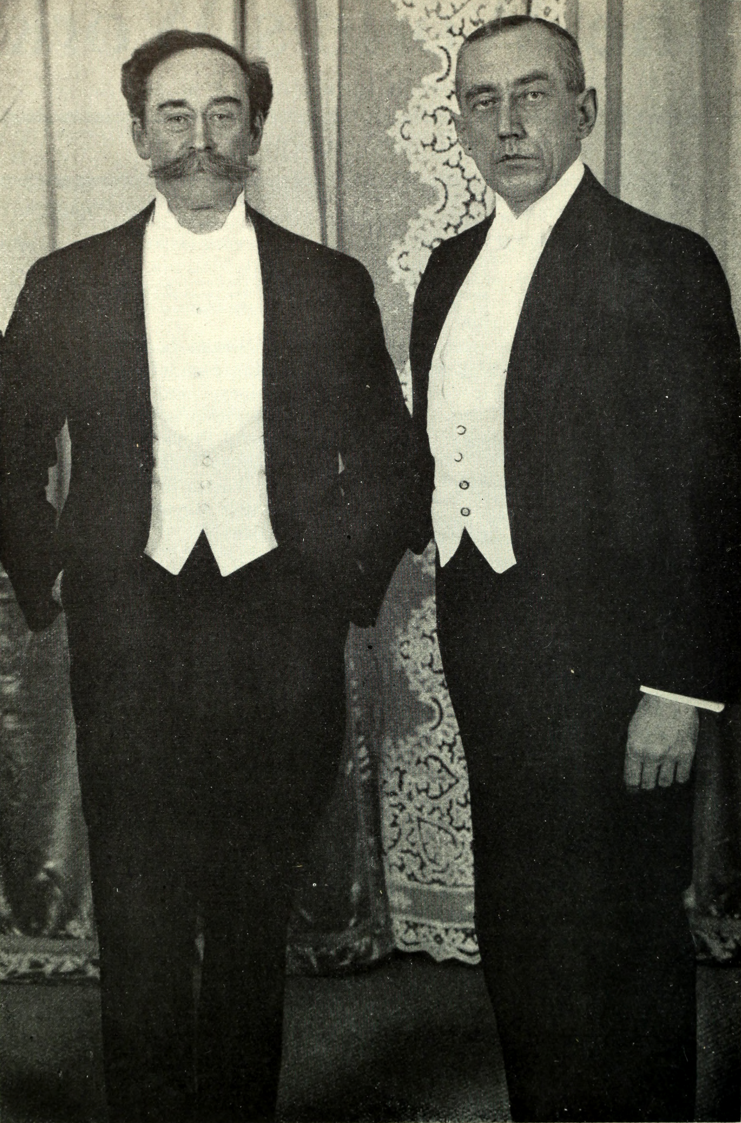 "From the ends of the earth," Roald Amundsen and Robert E. Peary.